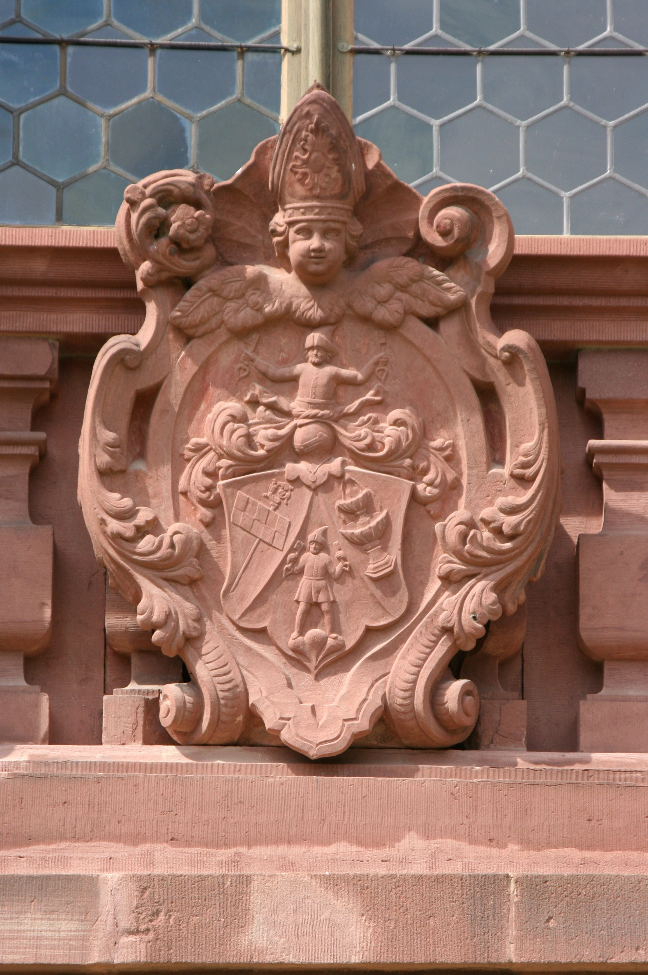 Bronnbach Abbey. Coat of arms of Engelbert Schäffner at the refectory